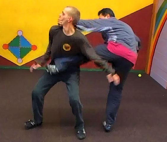 Tescao in Action , Wuppertal 11.2004